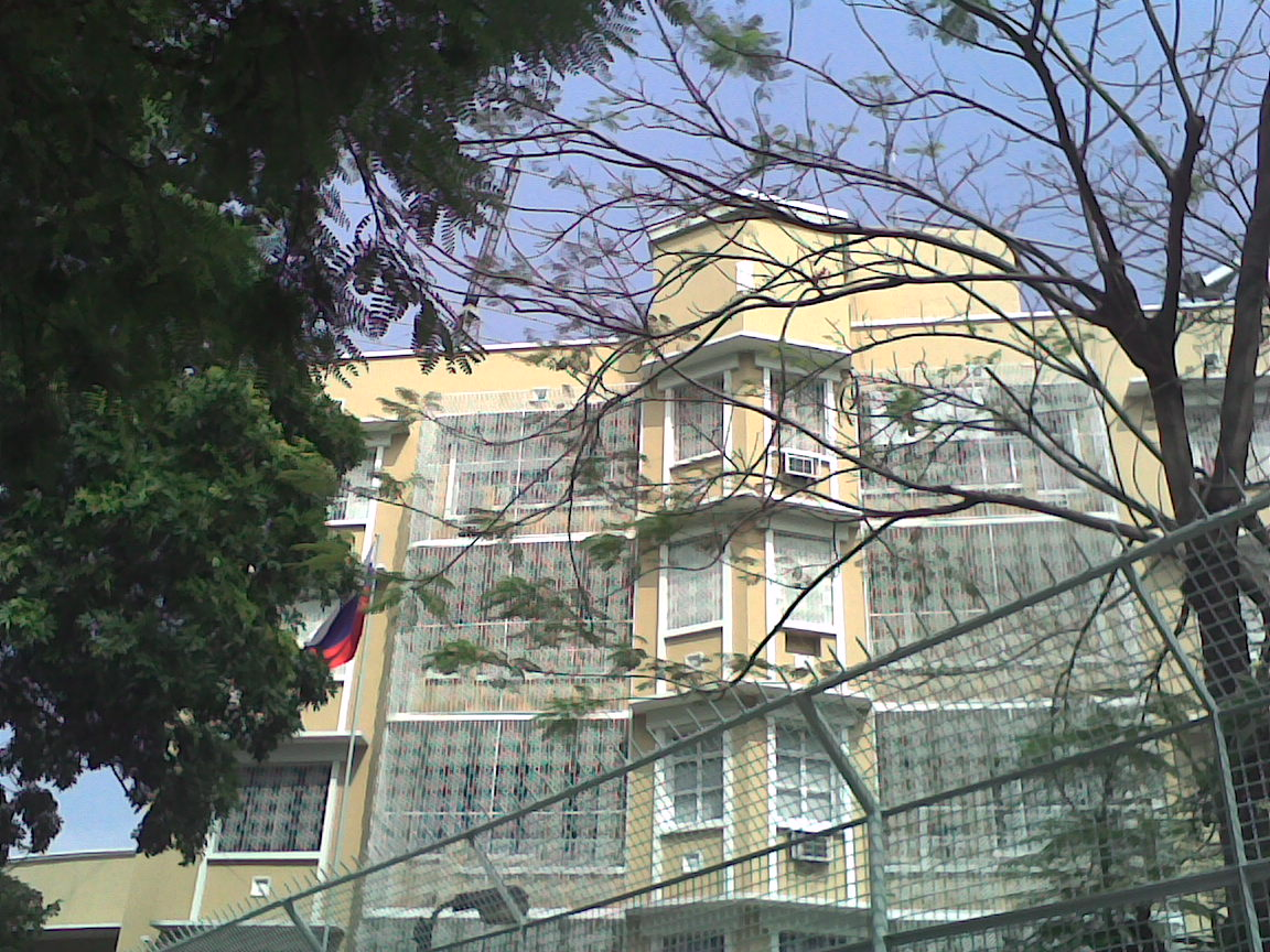 Russian Consulate in HCMC